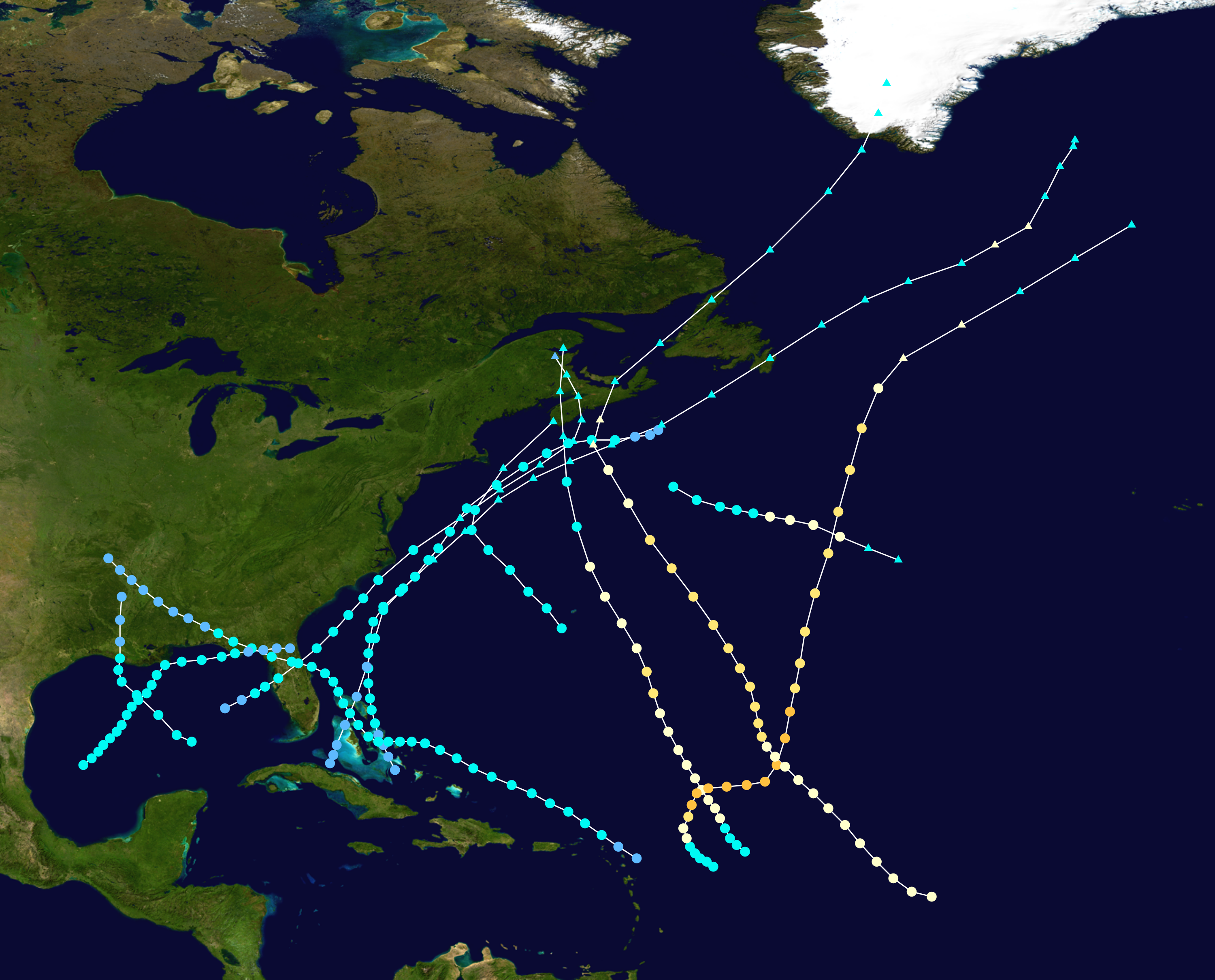 Track map of all storms of the 1937 Atlantic hurricane season. The points show the location of the storm at 6-hour intervals. The colour represents the storm's maximum sustained wind speeds as classified in the Saffir–Simpson hurricane wind scale (see below), and the shape of the data points represent the nature of the storm, according to the legend below. Saffir–Simpson hurricane wind scale Tropical depression≤38 mph≤62 km/h Category 3111–129 mph178–208 km/h Tropical storm39–73 mph63–118 km/h Category 4130–156 mph209–251 km/h Category 174–95 mph119–153 km/h Category 5≥157 mph≥252 km/h Category 296–110 mph154–177 km/h Unknown Storm typeTropical cycloneSubtropical cycloneExtratropical cyclone / Remnant low / Tropical disturbance